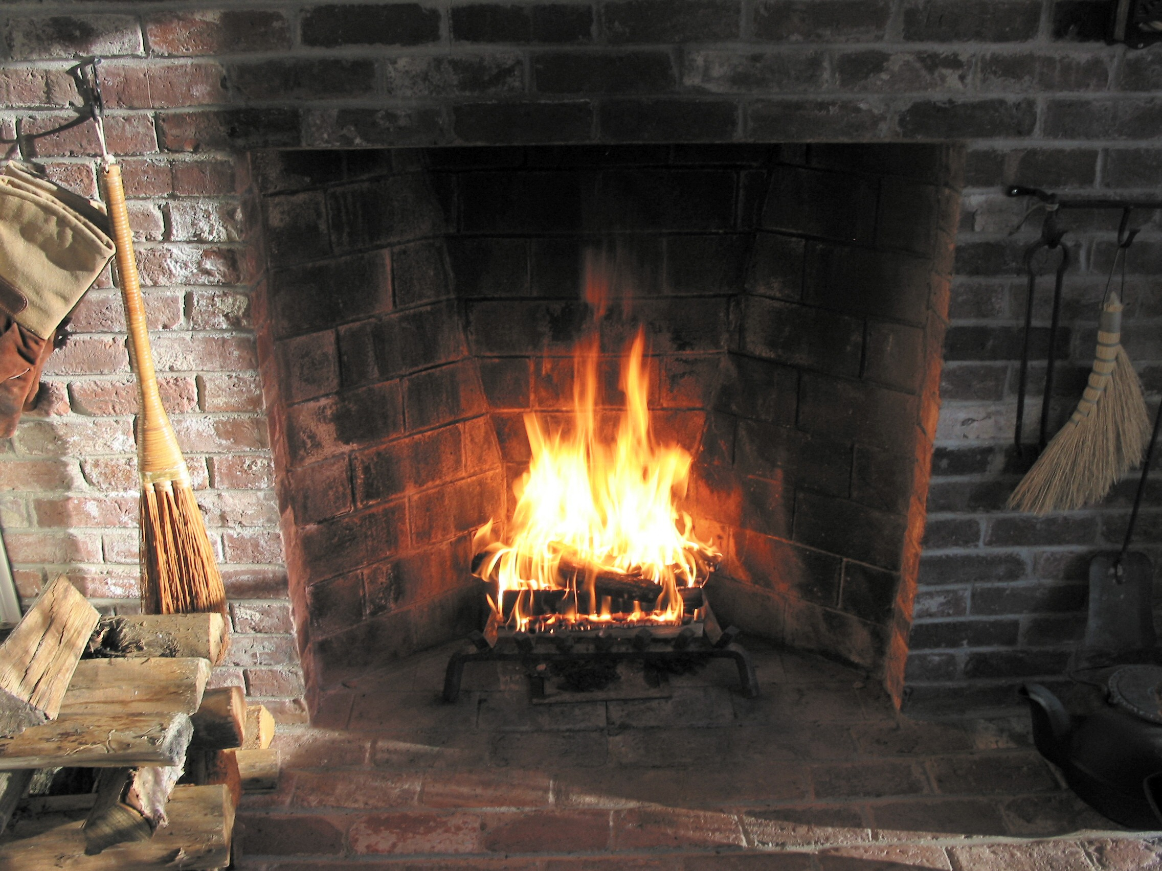 Rumford Fireplace. Falmouth, Maine, USA